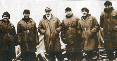 Primera expedición antártica chilena